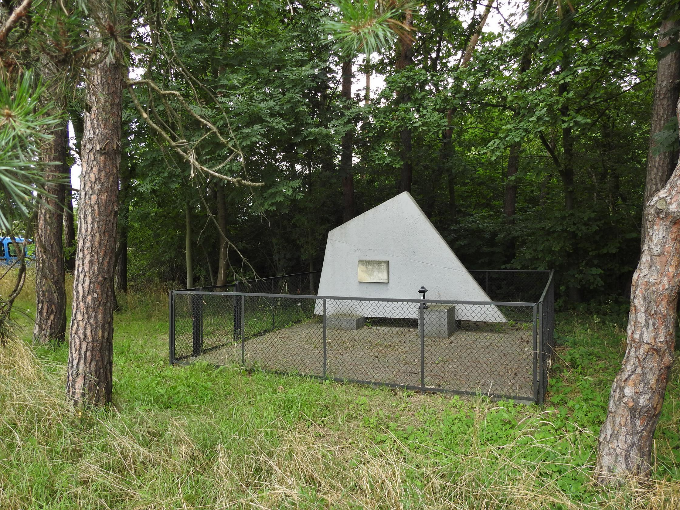 The Wełecki Forest: a monument commemorating the victims of German executions carried out on Poles in 1939 - 1945. The inscription on the board: HERE IN THE WOOLEK FOREST / PERFECTING POLISH PATRIOTS / POLISH PATRIOTS / ROZSTRZELIWANI / IN MASS EXECUTIONS / BY HITLEROWSK 1939 / ZICHLEROWSKARS 1939 / BUSEK SOCIETY